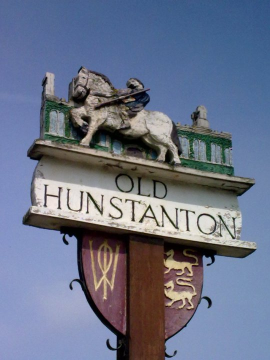 The old village sign that represents Old Hunstanton